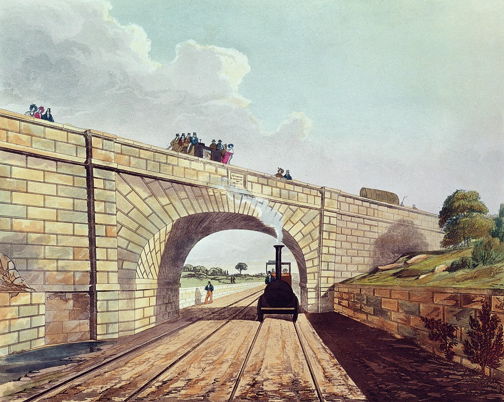 The skew bridge constructed at Rainhill to take the 1753 Liverpool and Warrington turnpike road (now the A57) over the Liverpool and Manchester Railway. The road crosses at an angle of 34° to the perpendicular, with a span of 54 ft (16.5 m) compared to a distance across the track of 30 ft (9.1 m). The thrust lines of a conventionally built arch would therefore fall outside the bridge abutments on either side, making it unstable. The solution is to lay the bricks forming the arch at an angle to the abutments on either side. This technique, which results in a spiral effect in the arch masonry, provides extra strength in the arch to compensate for the angled abutments; but it also meant that each masonry block had to be individually and expensively cut to its own unique shape, with no two edges either parallel or perpendicular. Experience of building such arches was very limited in 1829, and it is said that a wooden model (full-sized according to some accounts) was constructed in an adjacent field to guide the masons. The bridge, which was later widened, remains in use (cf this contemporary picture), adjacent to Rainhill railway station. It is recognised as a Grade II listed structure.